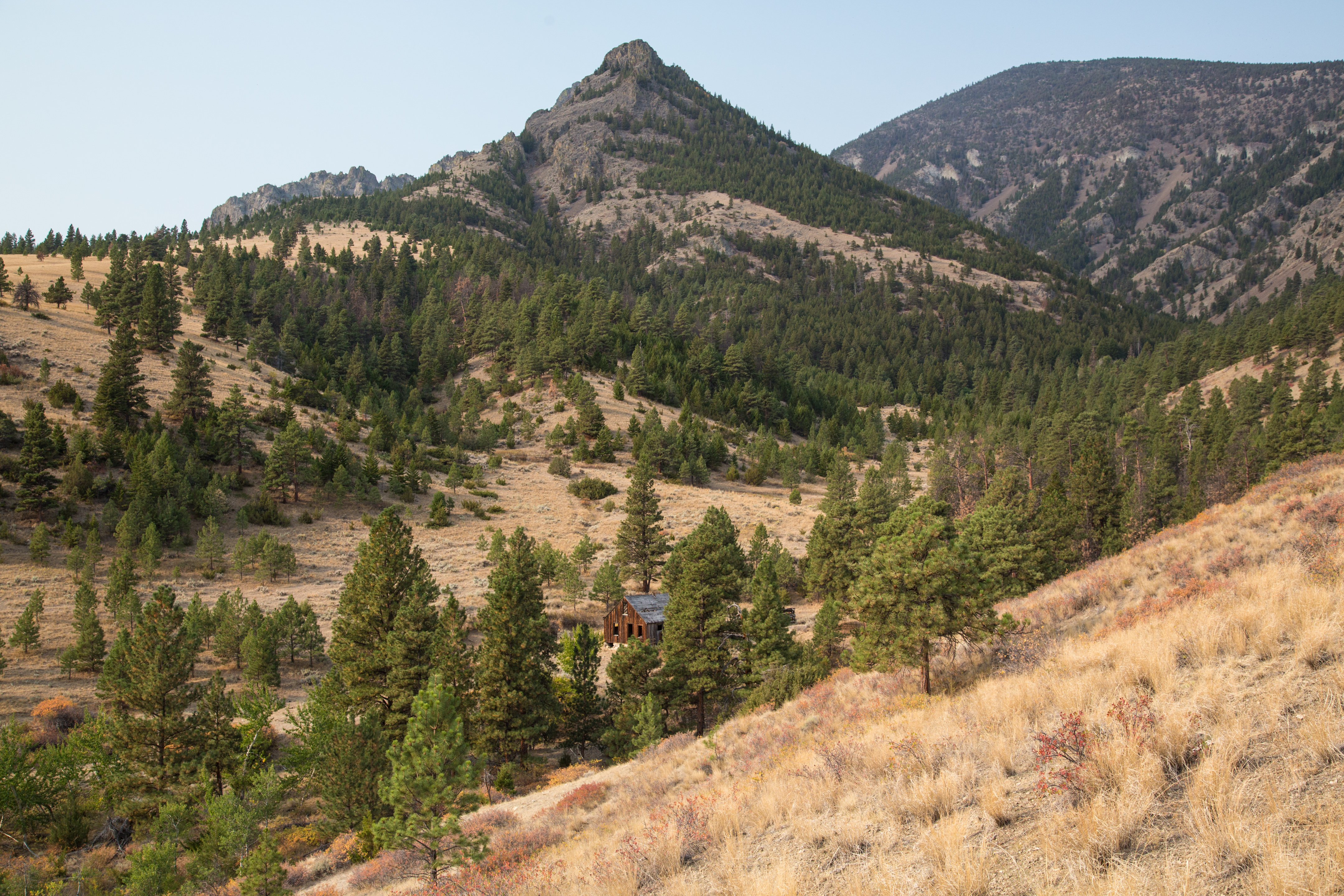 The Sleeping Giant Wilderness Study Area formation is a well-known landmark, visible from Helena. The wilderness study area is comprised of about 11,000 acres (4,500 ha) of steep, irregular topography with elevations ranging from 3,600 feet (1,100 m) to 6,800 feet (2,100 m). About half the area is forested. Twenty drainages dissect the area and provide solitude. Seven miles of ridgeline hiking routes offer spectacular panoramic views of the Rocky Mountains. A diversity of important wildlife species live here, including a thriving population of mountain goats that occupies the high outcroppings. Other common species include elk, black bear, bighorn sheep, mule deer, osprey, and golden eagles. About 40 primitive campsites are available along the Holter Lake shoreline. A portion of the Sleeping Giant area is also part of the Lewis and Clark National Historic Trail. Several deteriorating structures near the river evoke the lifestyles of early settlers. Popular recreation activities include Hiking, sightseeing, wildlife viewing, primitive camping, fishing. Learn more: Photo: Bob Wick, BLM California